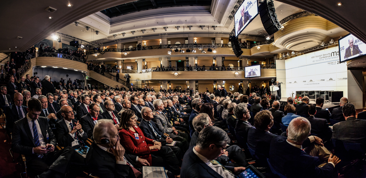 49th Munich Security Conference 2013: The conference hall during the opening session: A view of the conference hall during Wolfgang Ischinger's welcome remarks.